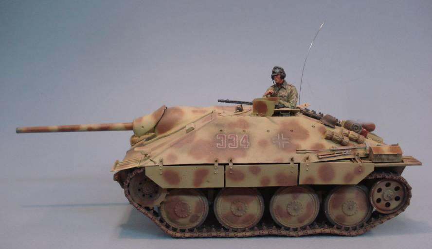 1/16th scale scratch built German Hetzer tank